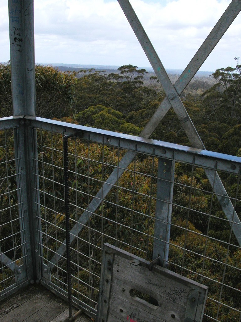 photograph of the view over treetops from the metal cabin at the top of the Gloucester Tree, near Pemberton in Western Australia, December 2005